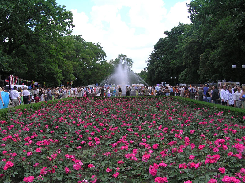 Park of the Victory. Tiraspol.